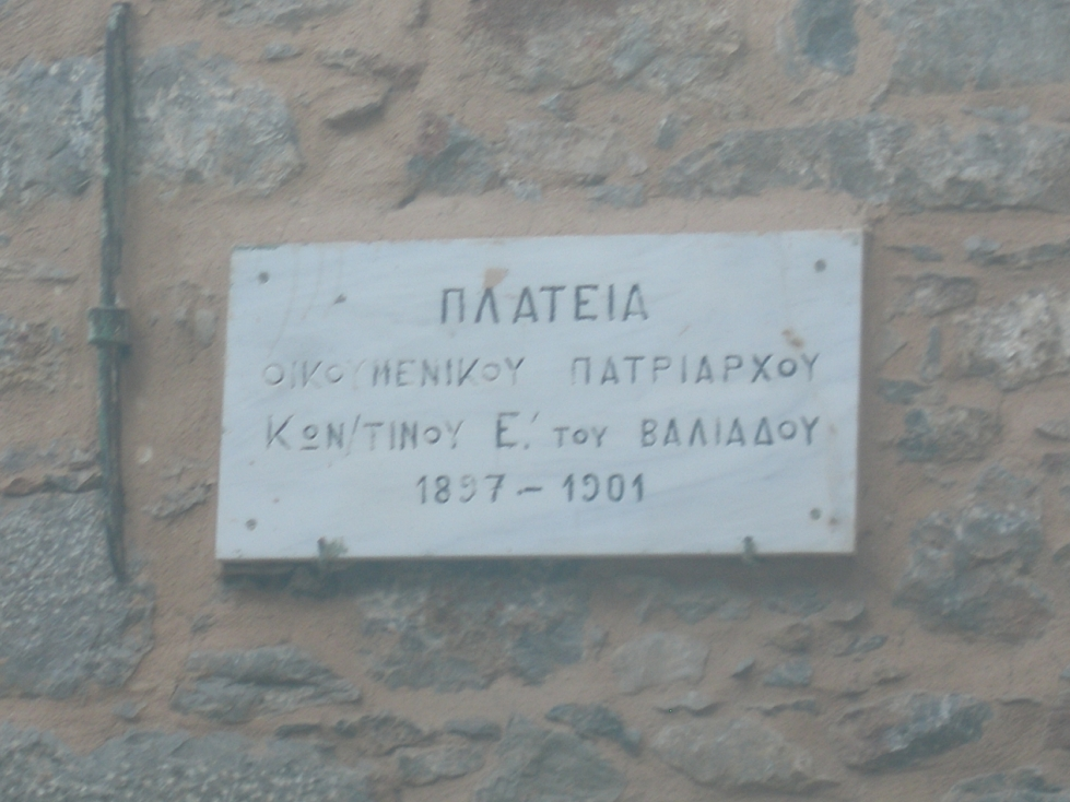 Vessa of Cios island:central square